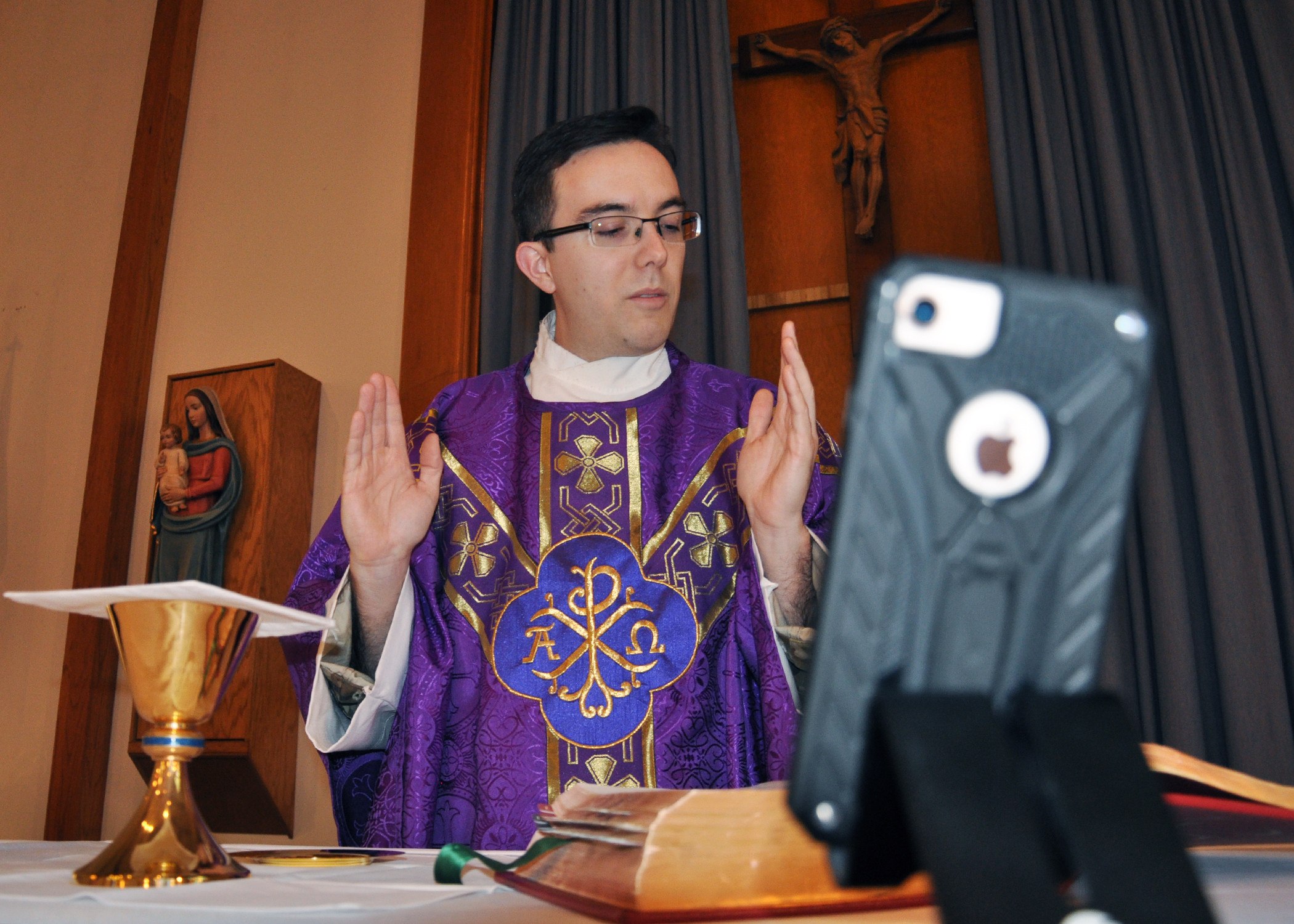 Chaplain 1st Lt. Philip O'Neill prepares for a virtual mass. Following the directions of the President and Governor Ricketts, in response to the CoronaVirus pandemic, the base chapel here is changing the format of all worship services from in-person to virtual worshipping.